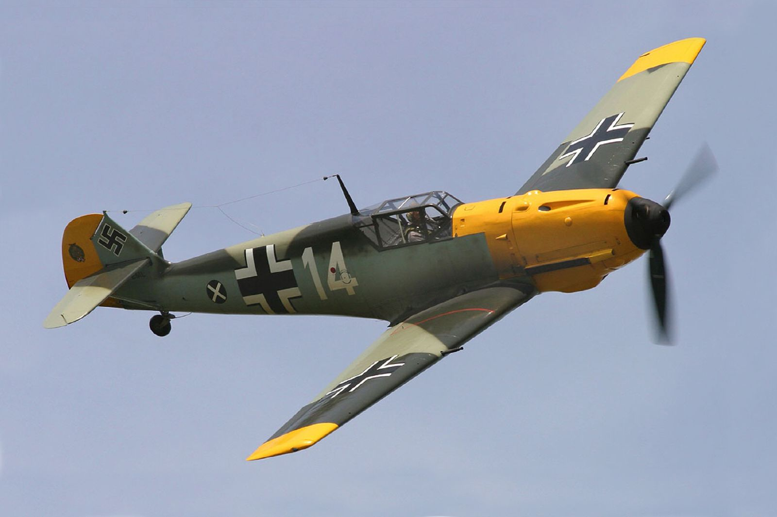 A Messerschmitt Bf 109E that once participated at the Battle of Britain photographed at Thunder Over Michigan 2006.